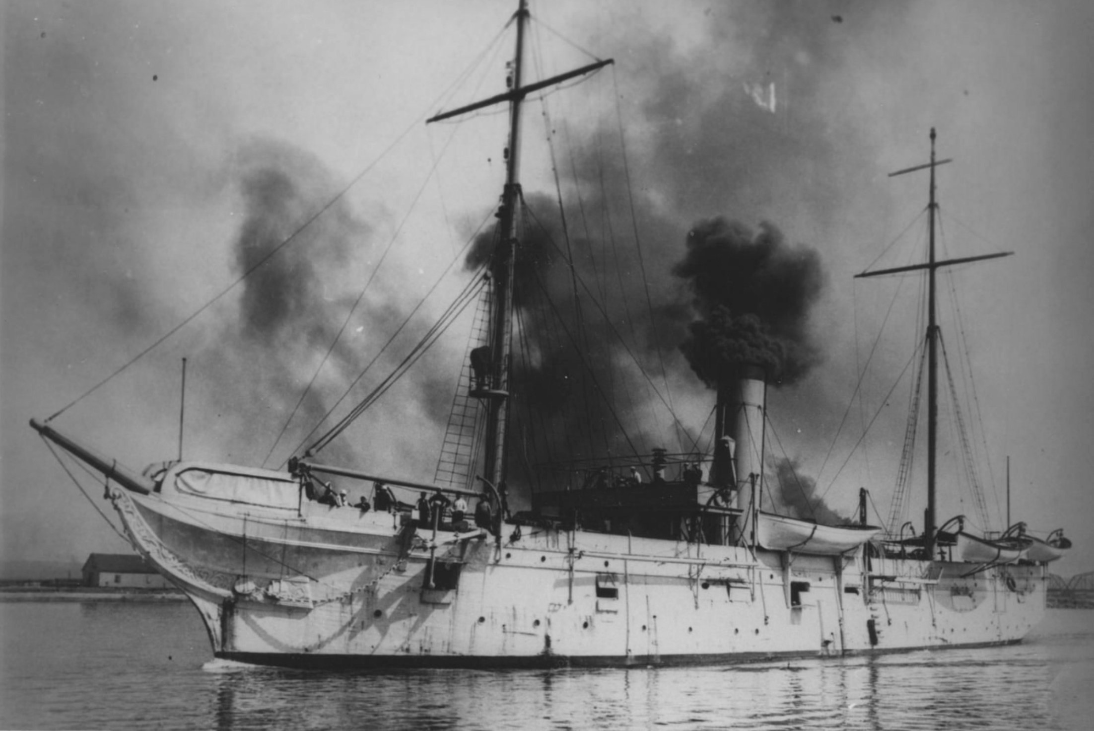 the USS Essex underway